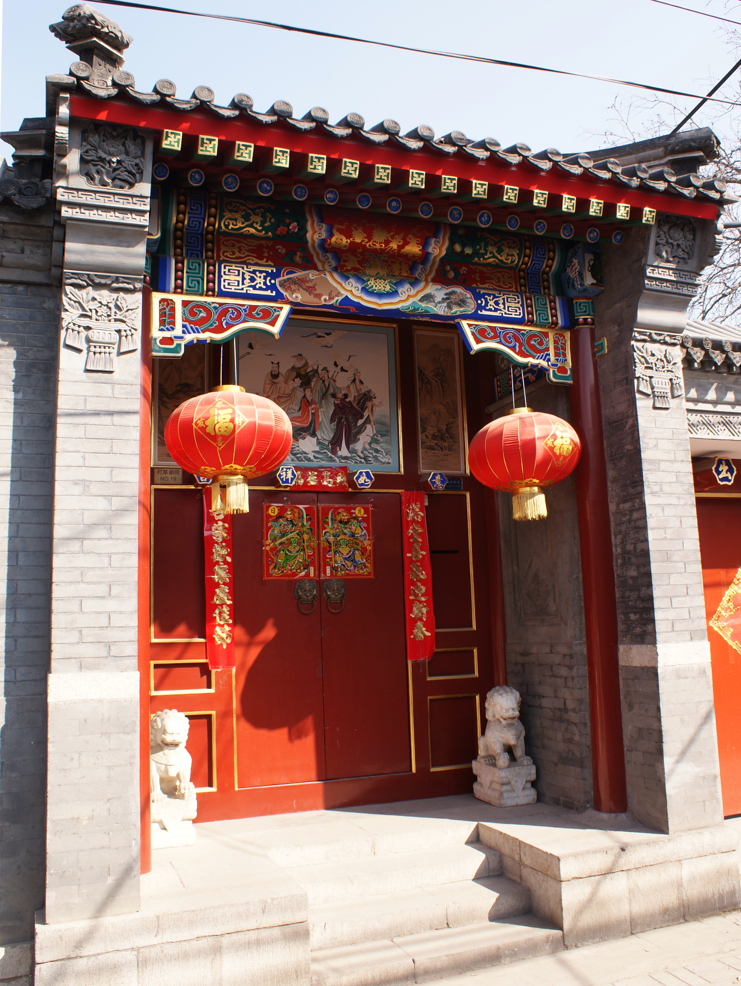 An elaborate traditional door in Beijing.